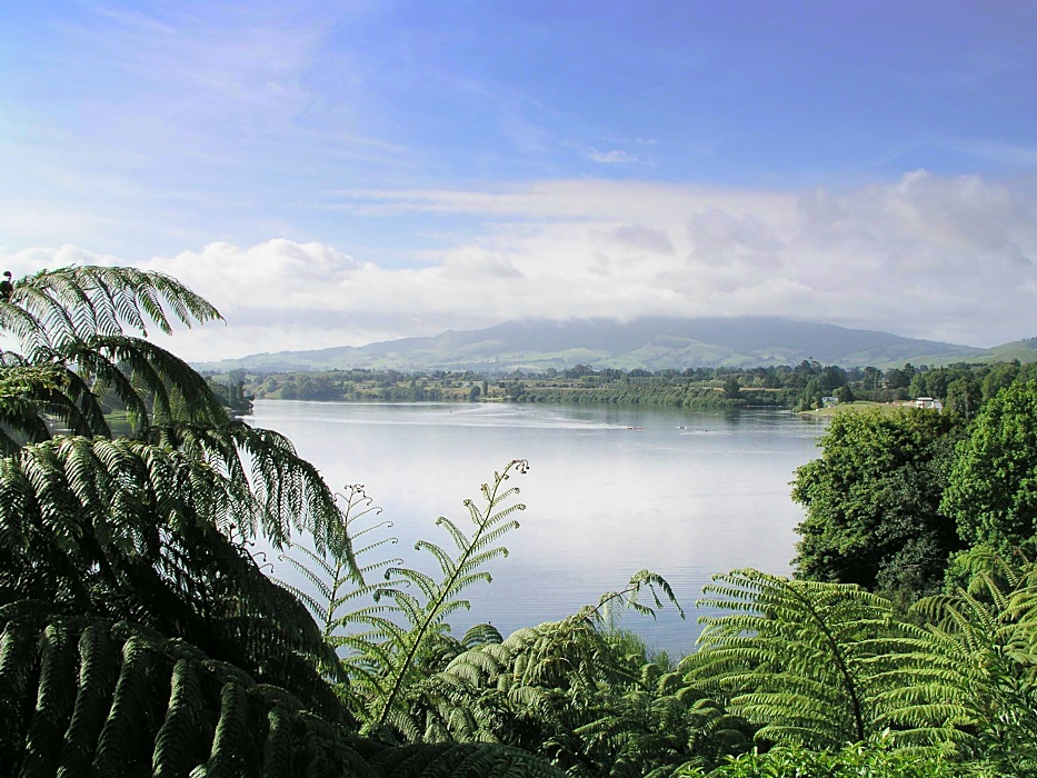 Karapiro - Waikato River, New Zealand